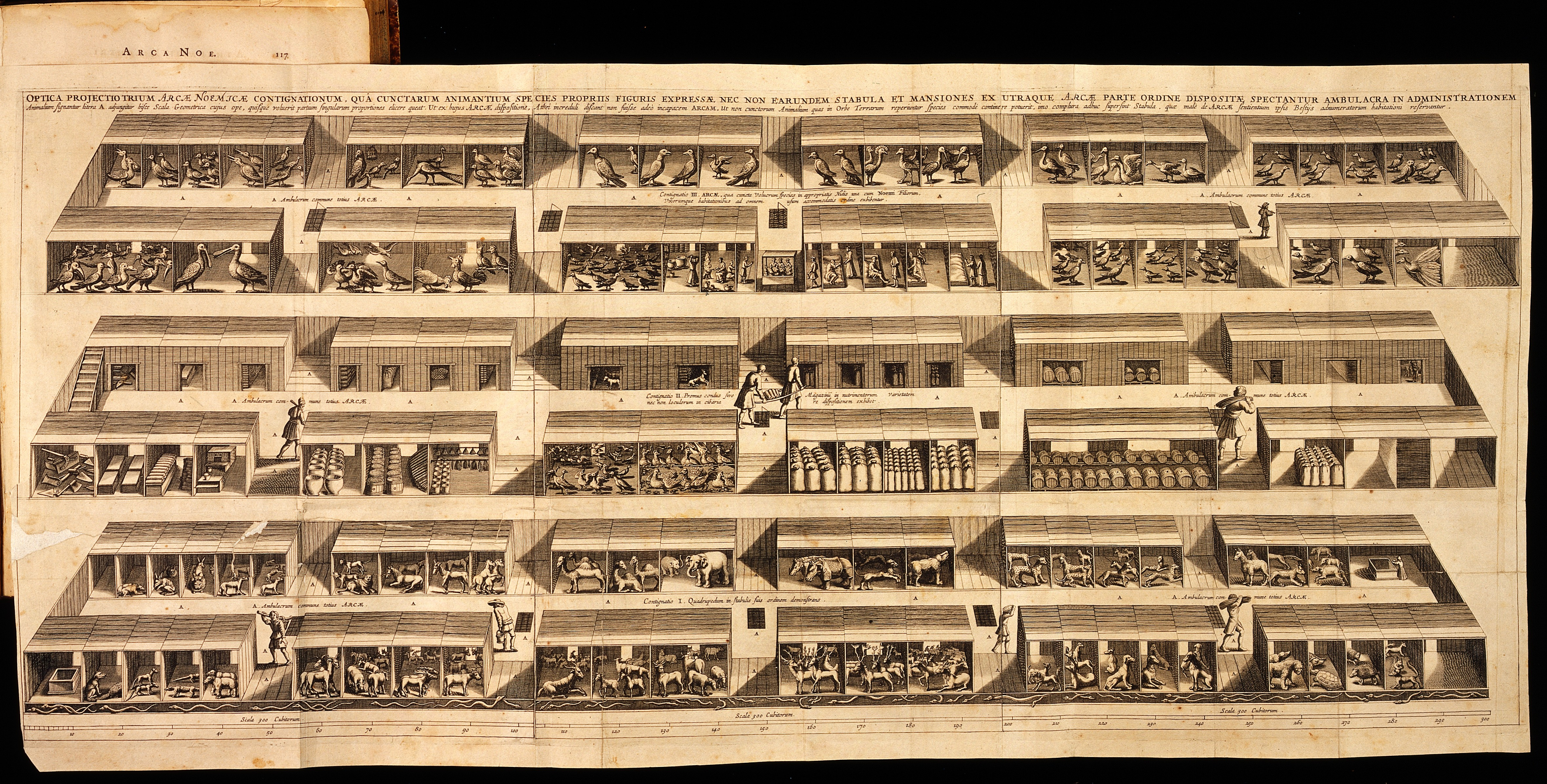 Internal view of Noah's Ark showing the animals housed in their compartments over three decks Rare Books Keywords: noah's ark; SACRED SUBJECTS; Plans; Ships; arca noe; athanasius kircher; Animals; epb; Boat